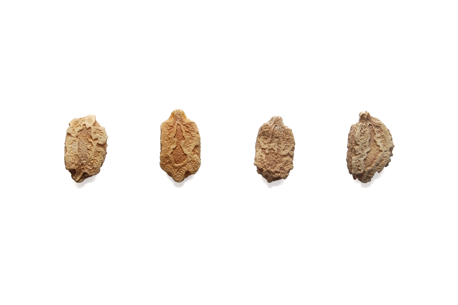 Seeds from bitter melon (Momordica charantia), Thai variety.